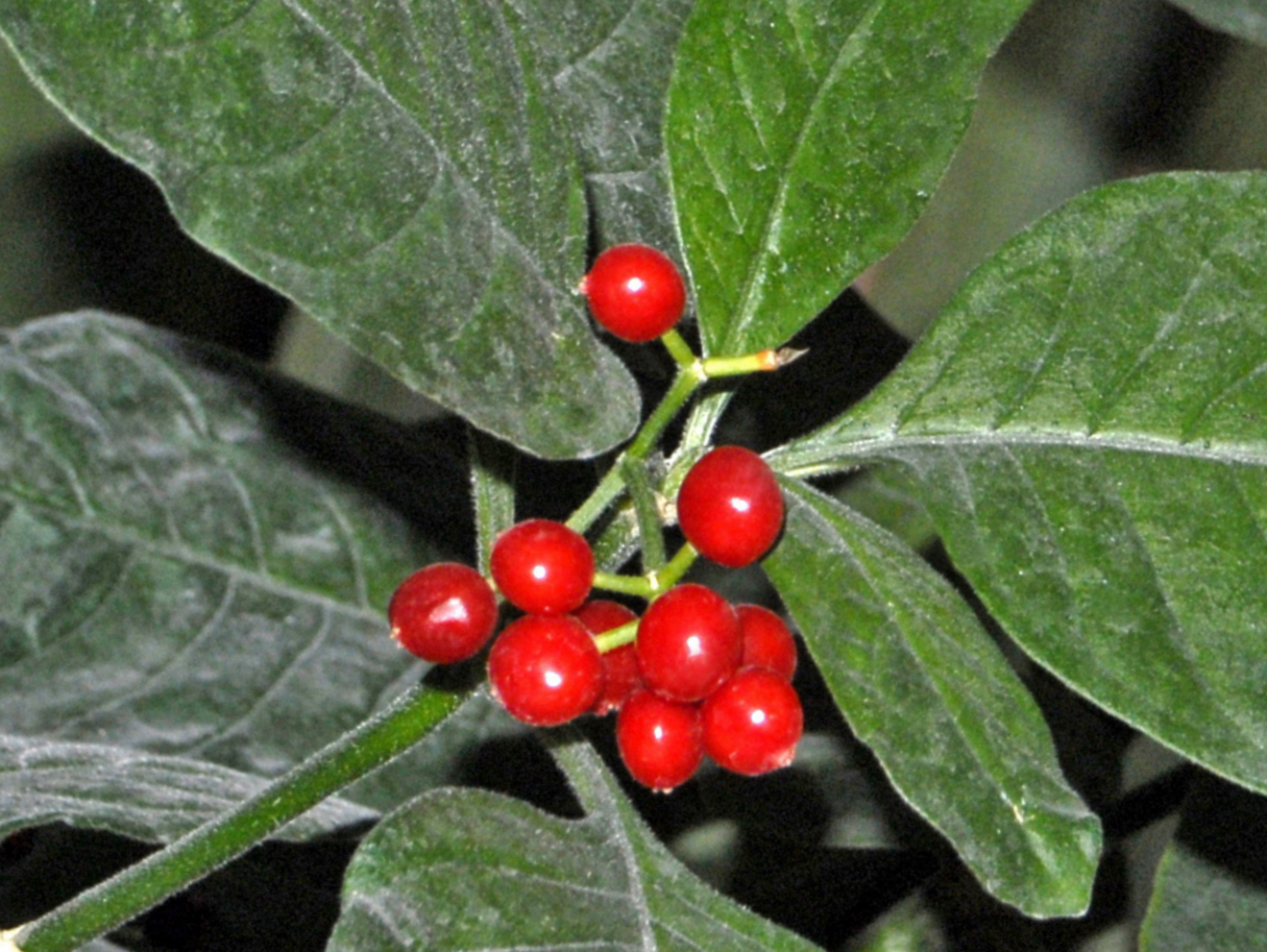 Psychotria punctata at the Jardin des Plantes, Paris